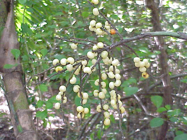 Species: Gaussia maya Family: Palmae Image No. 4